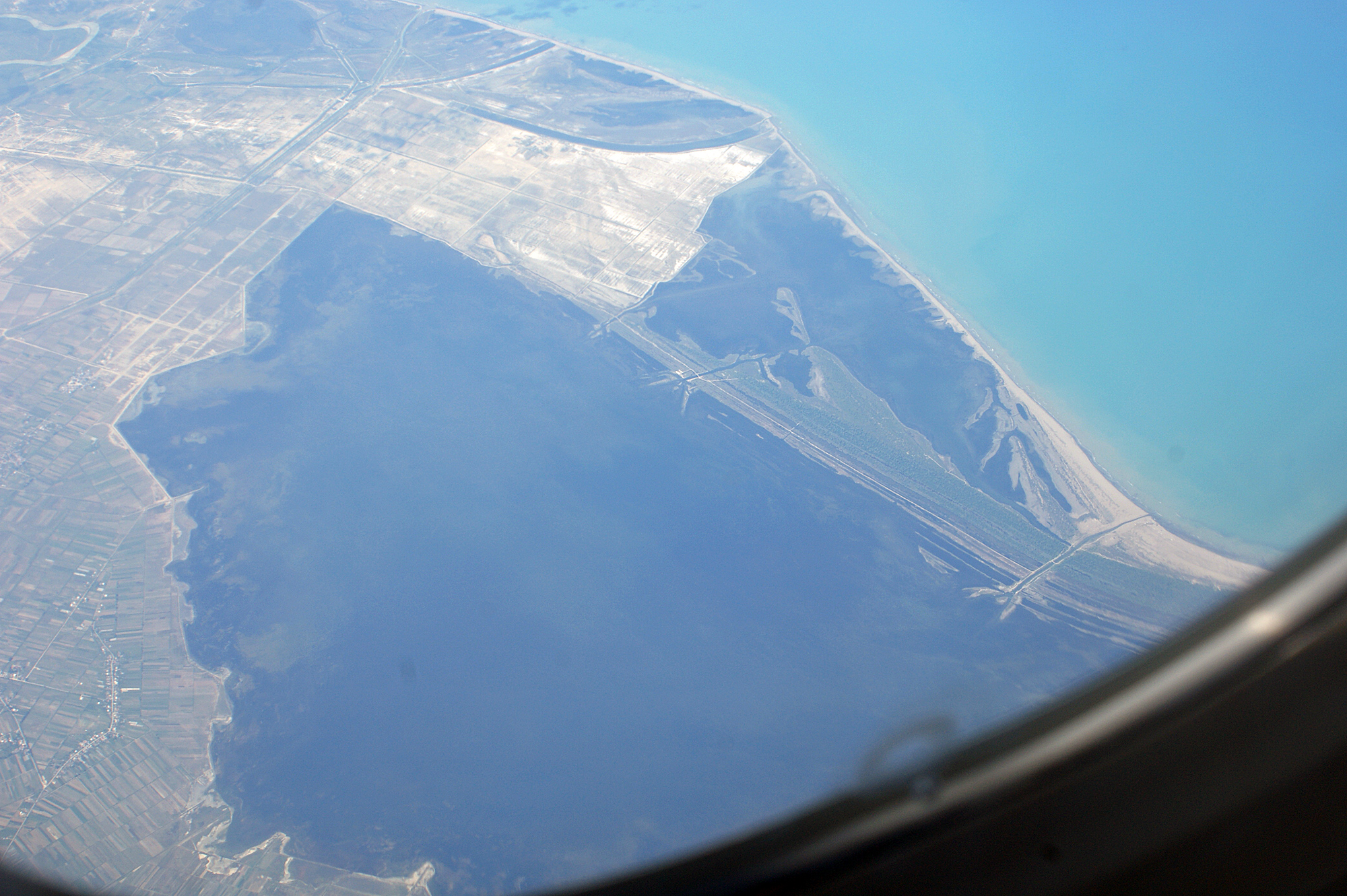 Southern End of Karavasta Lagoon, Albania